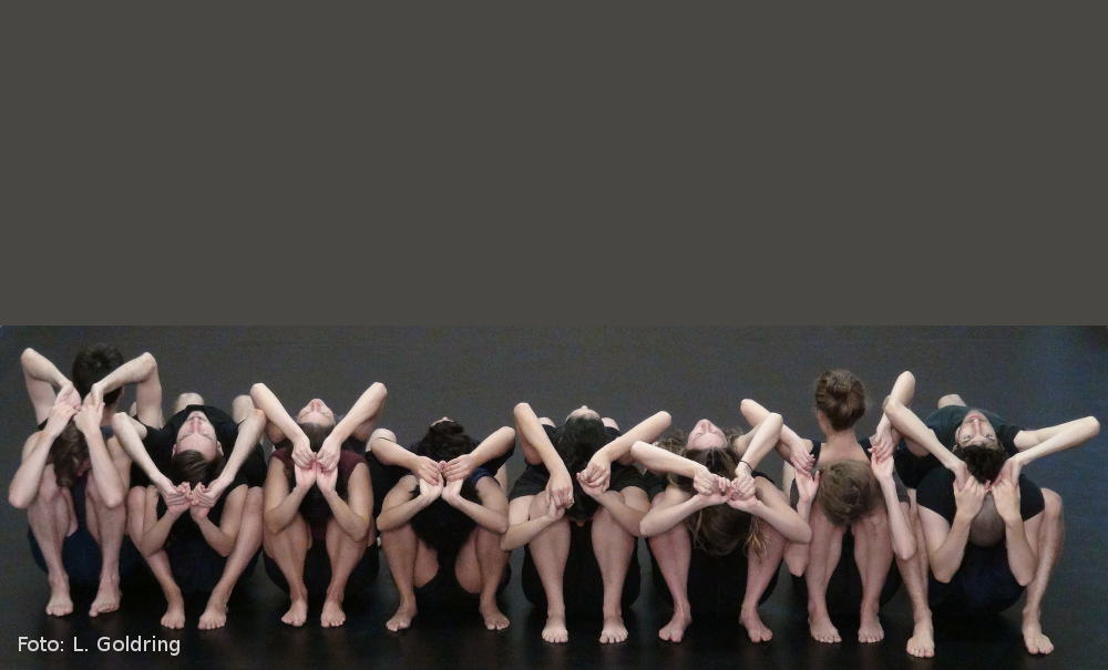 Collective Jumps in Berlin HAU theater November 2014